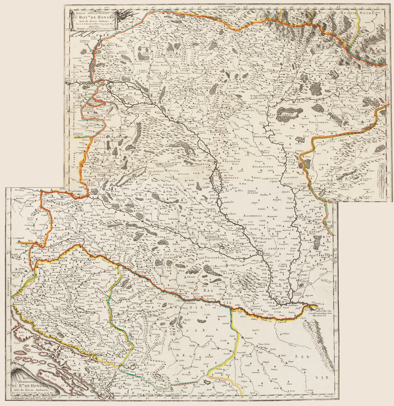 French map of Hungary 1650 by Nicolas Sanson